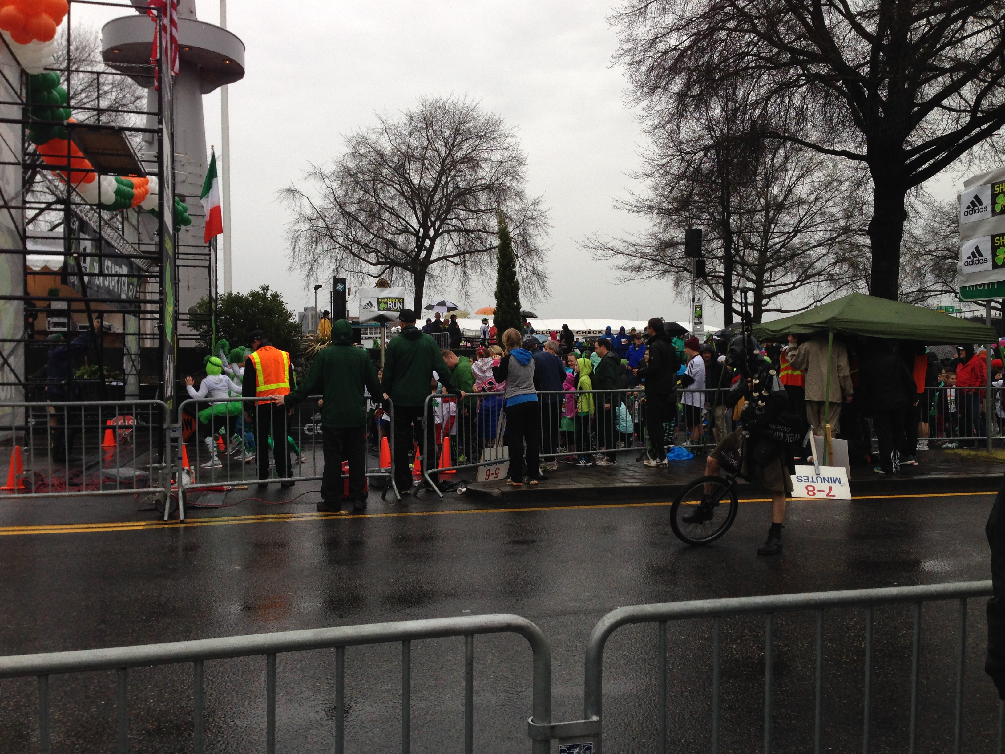 The Shamrock Run in Portland, Oregon is an annual event held around St. Patrick's Day. Depicted here are runners lined up to compete in the run.